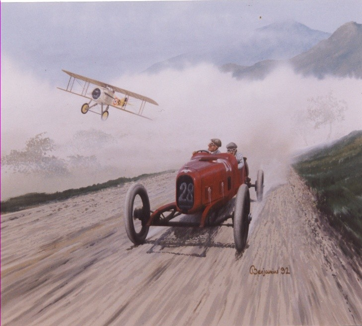 Description: This is a painting by Arthur Benjamins. Source: Supplied by artist to uploader; available in lesser quality at Date: 1992 Author: Arthur Benjamins Permission: OTRS permission granting GFDL v 1.2 or later and CC-BY-SA. See Ticket:2009051710015187